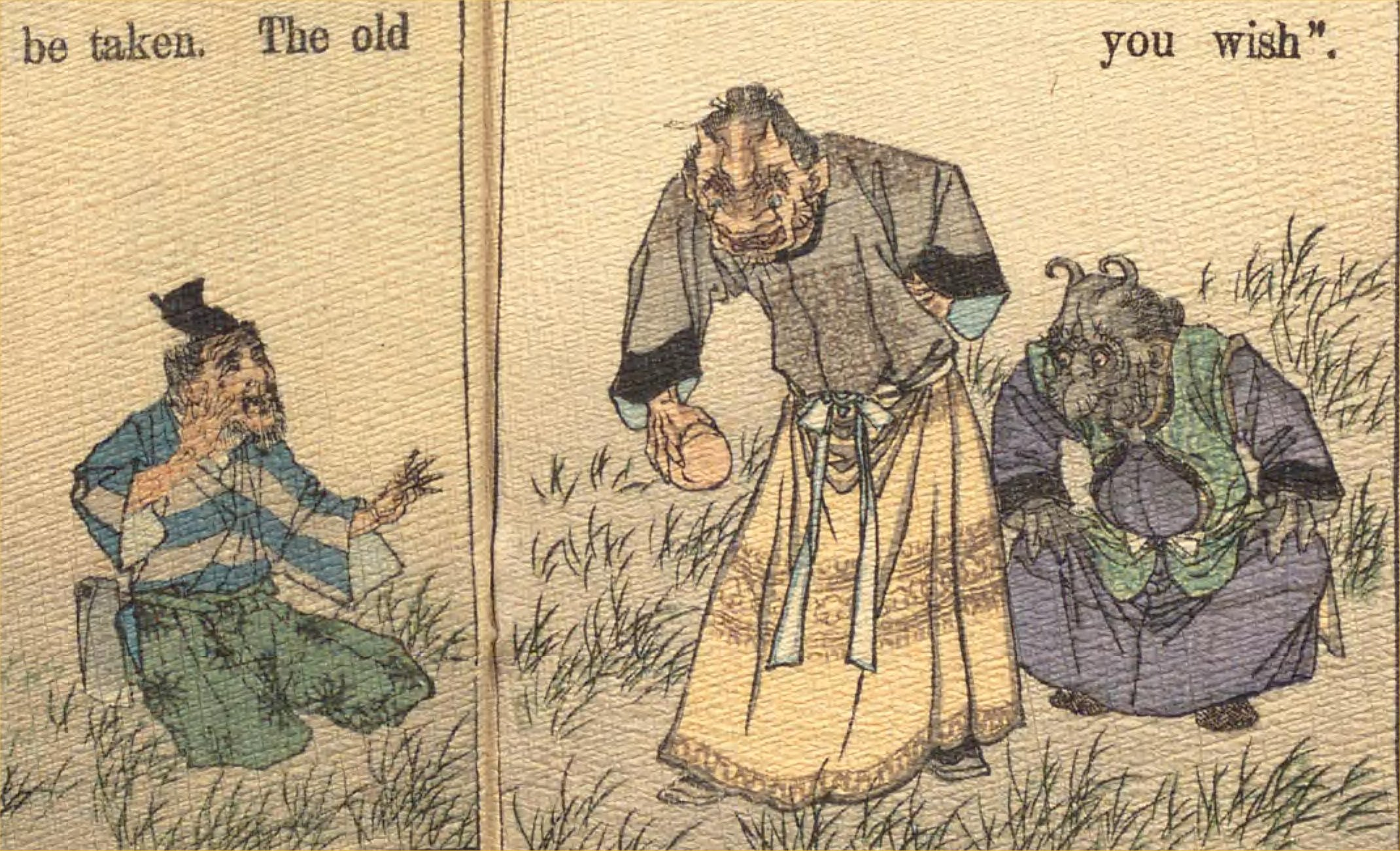 The old man's lump is gone from his cheek, and an oni (devil) holds the lump in his hand.